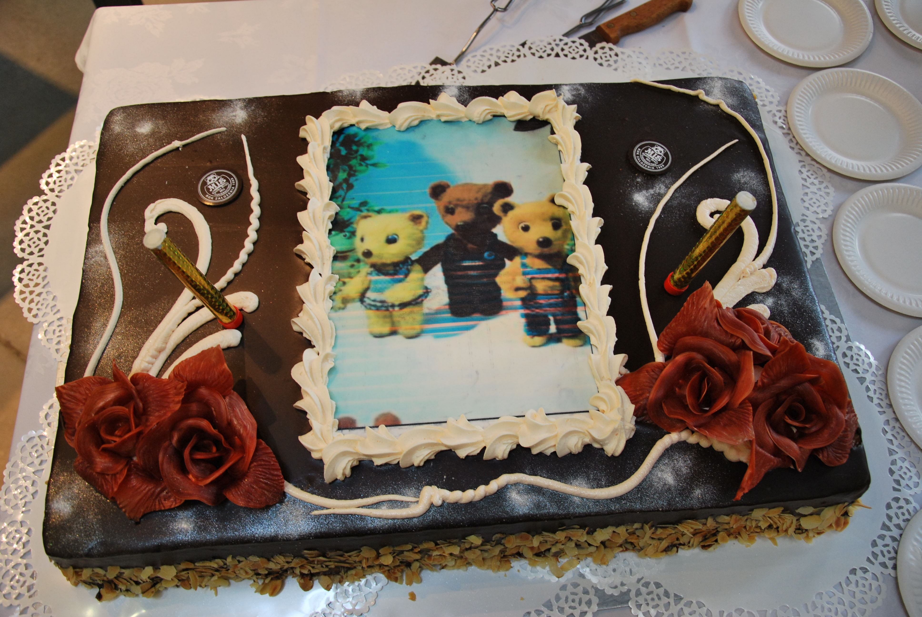 Opening of Three Bears Sculpture, Łódź November 25th 2012. Occasional cake.